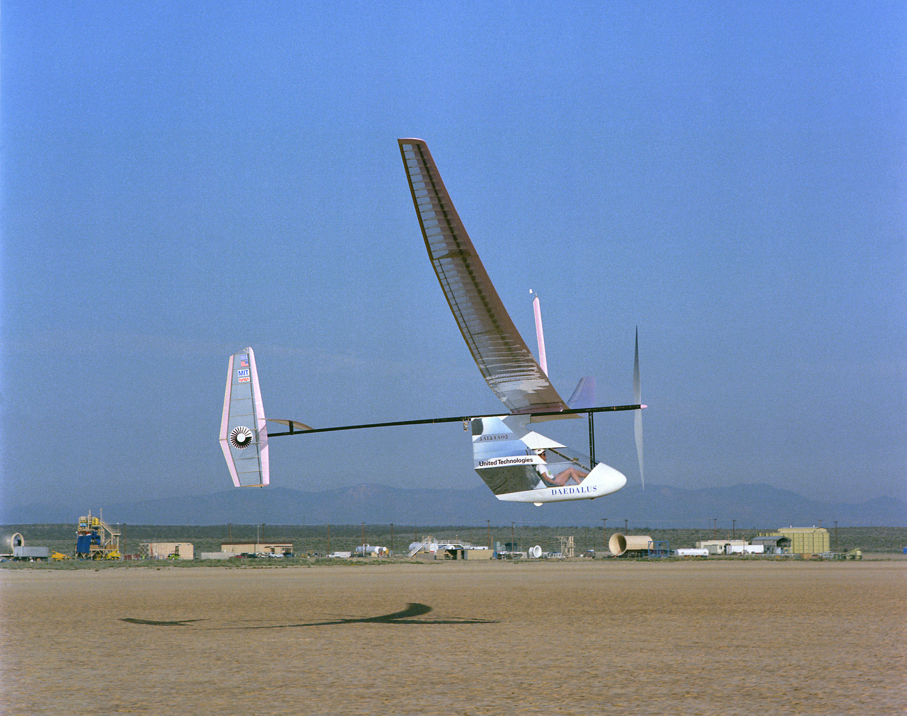 The Daedalus 88, with Glenn Tremml piloting, on its last flight for the NASA Dryden Flight Research Center, Edwards, California.